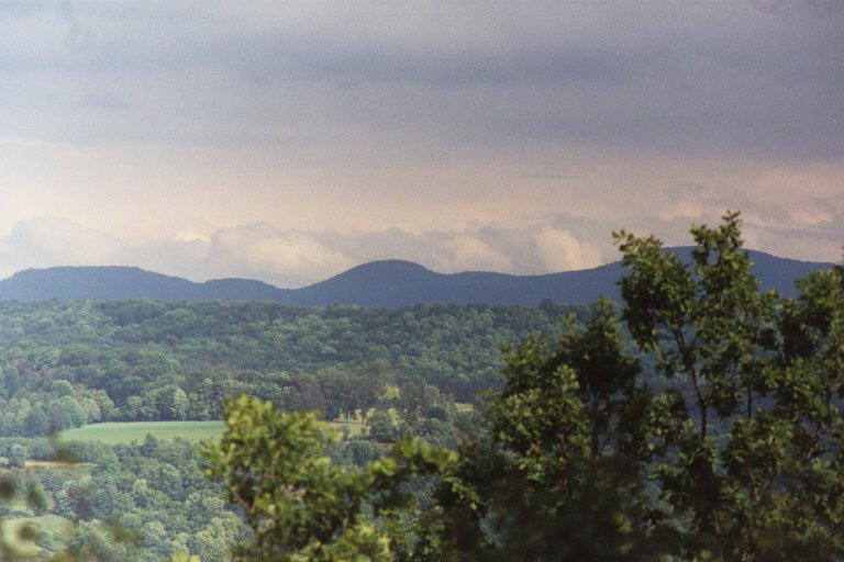 View of the Schwäbishe Alb near Tübingen, Germany